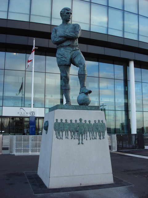 Bobby Moore Statue outside Wembley Stadium, near to Wembley, Brent, Great Britain.